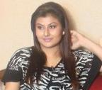 Prastuti Porasor